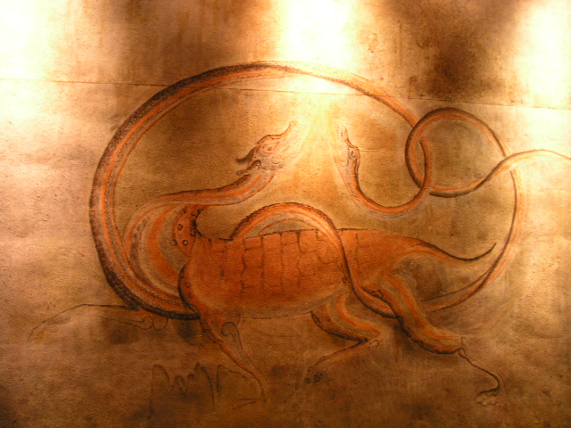 Hyeonmoo, Guardian of the North. Paiting on ancient Korean tomb.